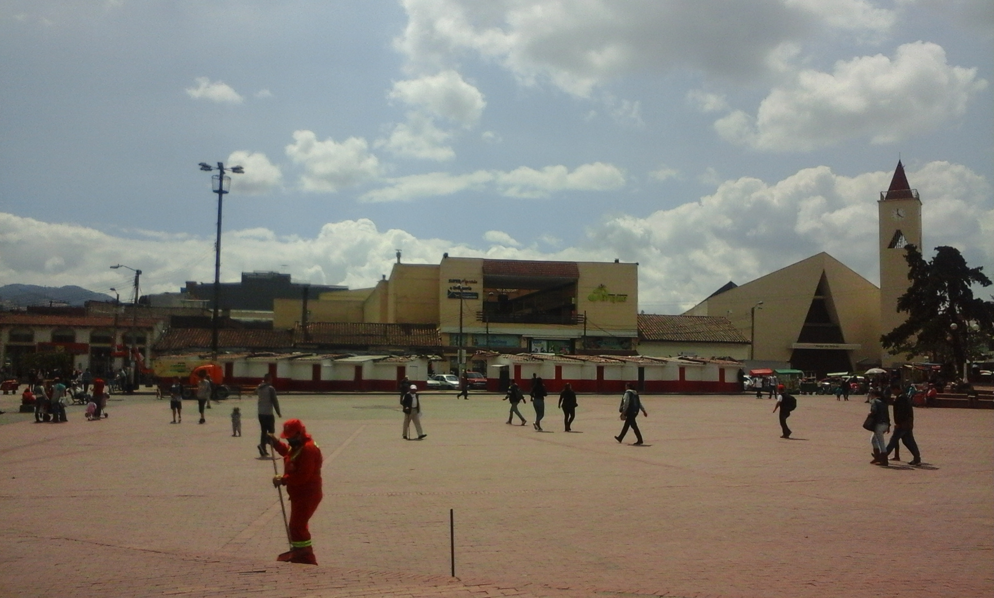 Soacha´s Central Square, with almohabanas minishop